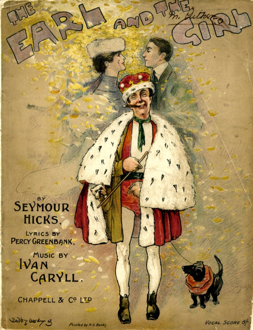 From an old vocal score in my possession.